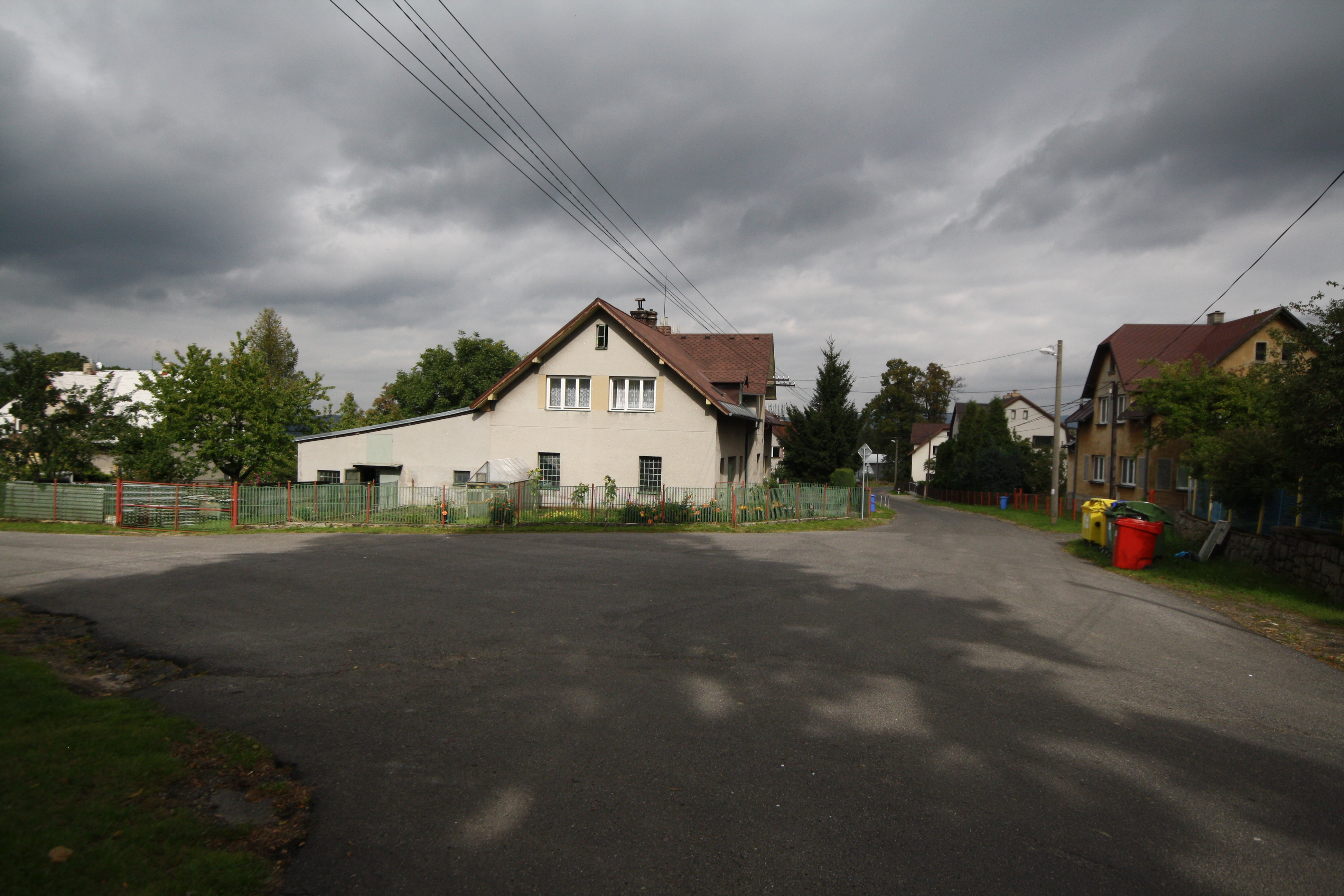 Square in Horní Suchá, Liberec.